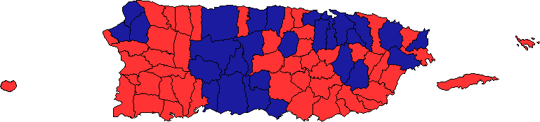 Puerto Rican general election, 1968 map.